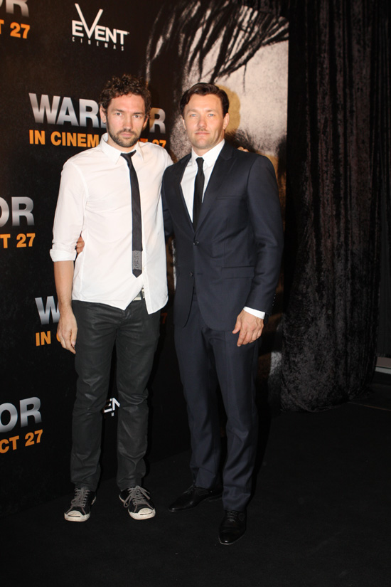 Nash Edgerton and Joel Edgerton at Warrior Sydney Premiere